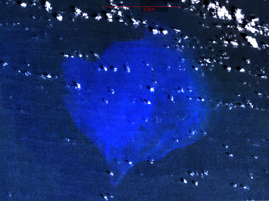 NASA World Wind screen shot of Alice Shoal south of Jamaica, Caribbean Sea visible color 40 percent brightness added 40 percent constrast added scale added